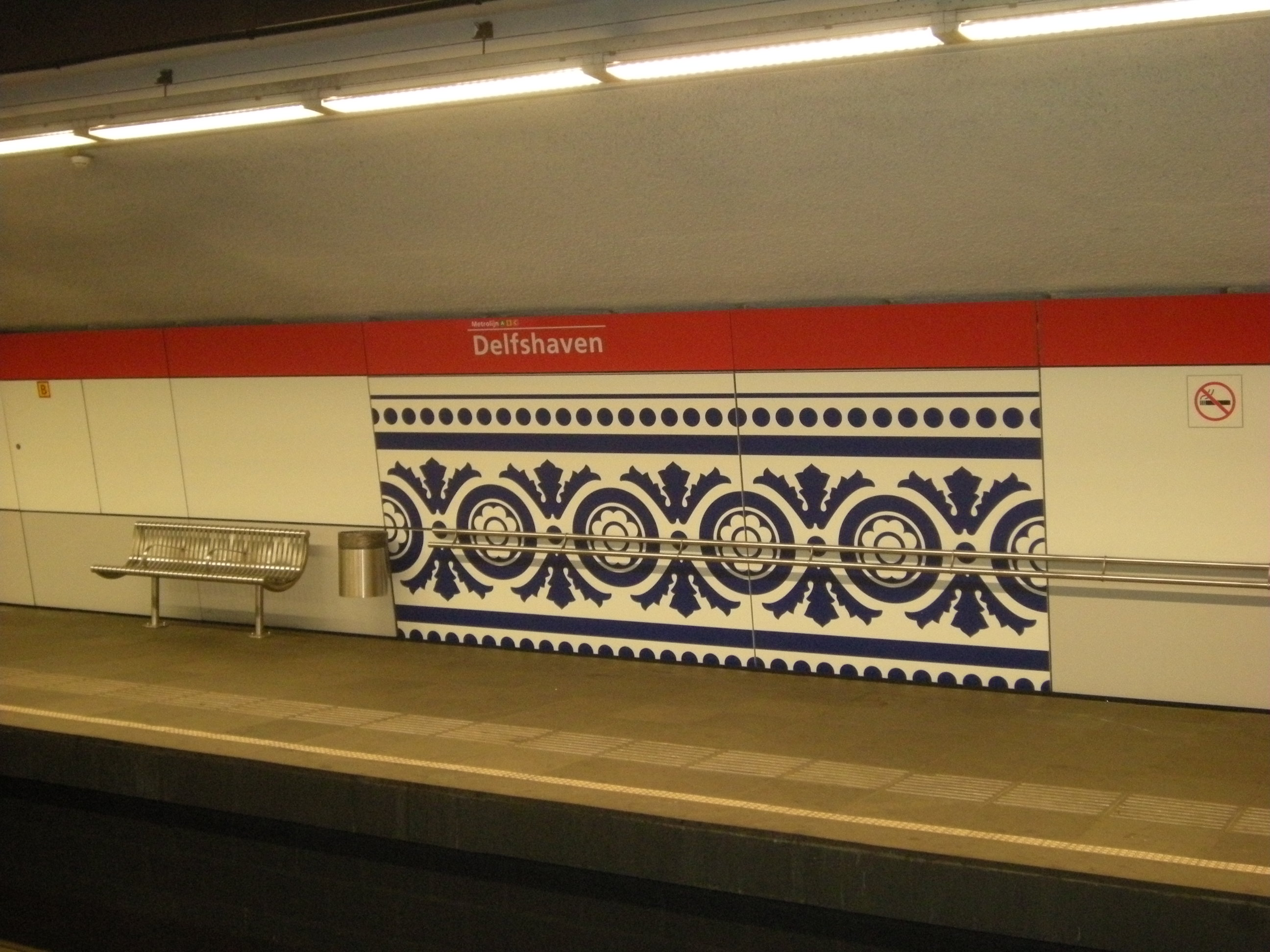 Work of art in metro station Delfshaven, Rotterdam, the Netherlands.